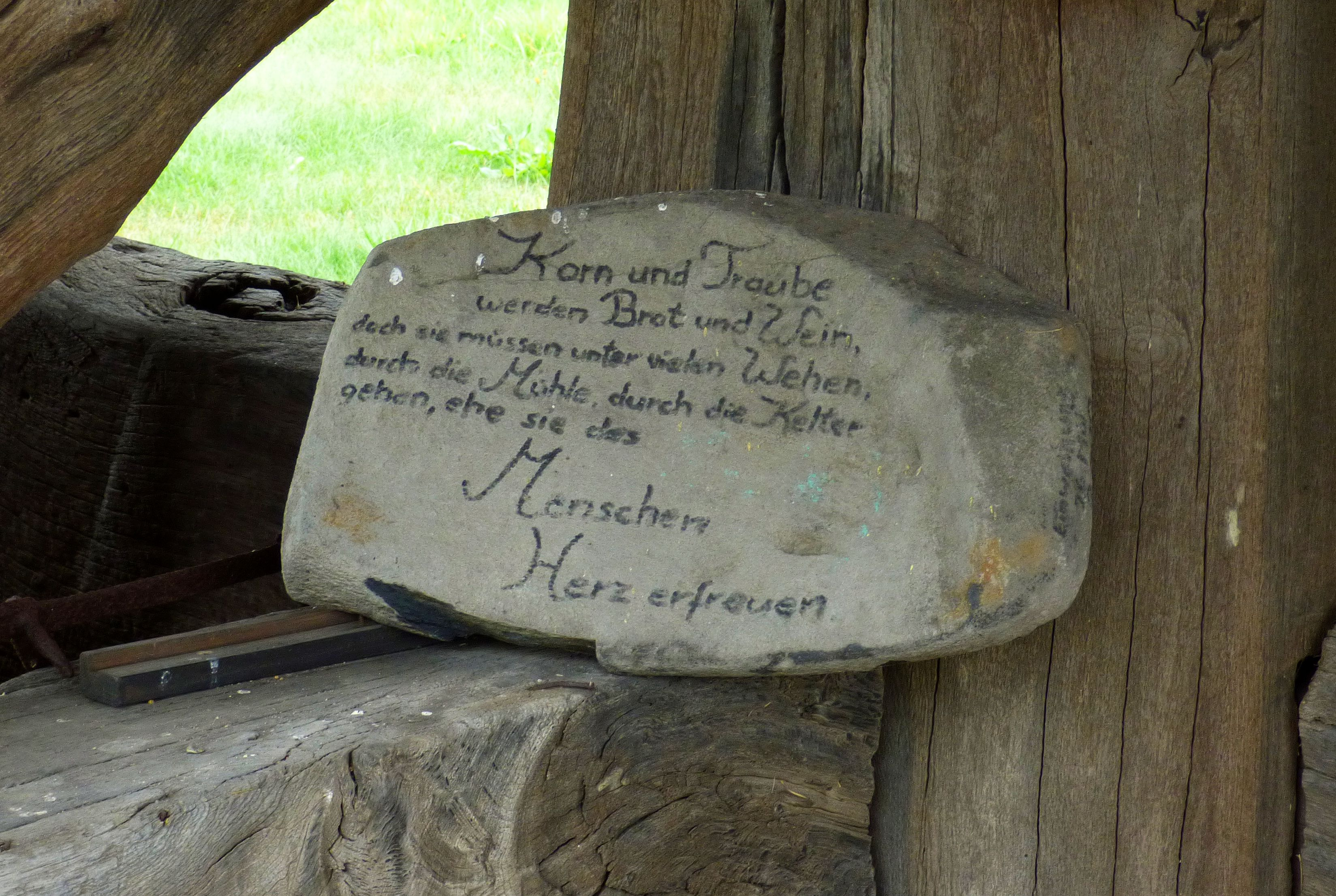 Windmill in Dreiheide-Großwig in Saxony, Germany